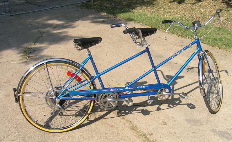 Author: Daniel Johnson Source: Author